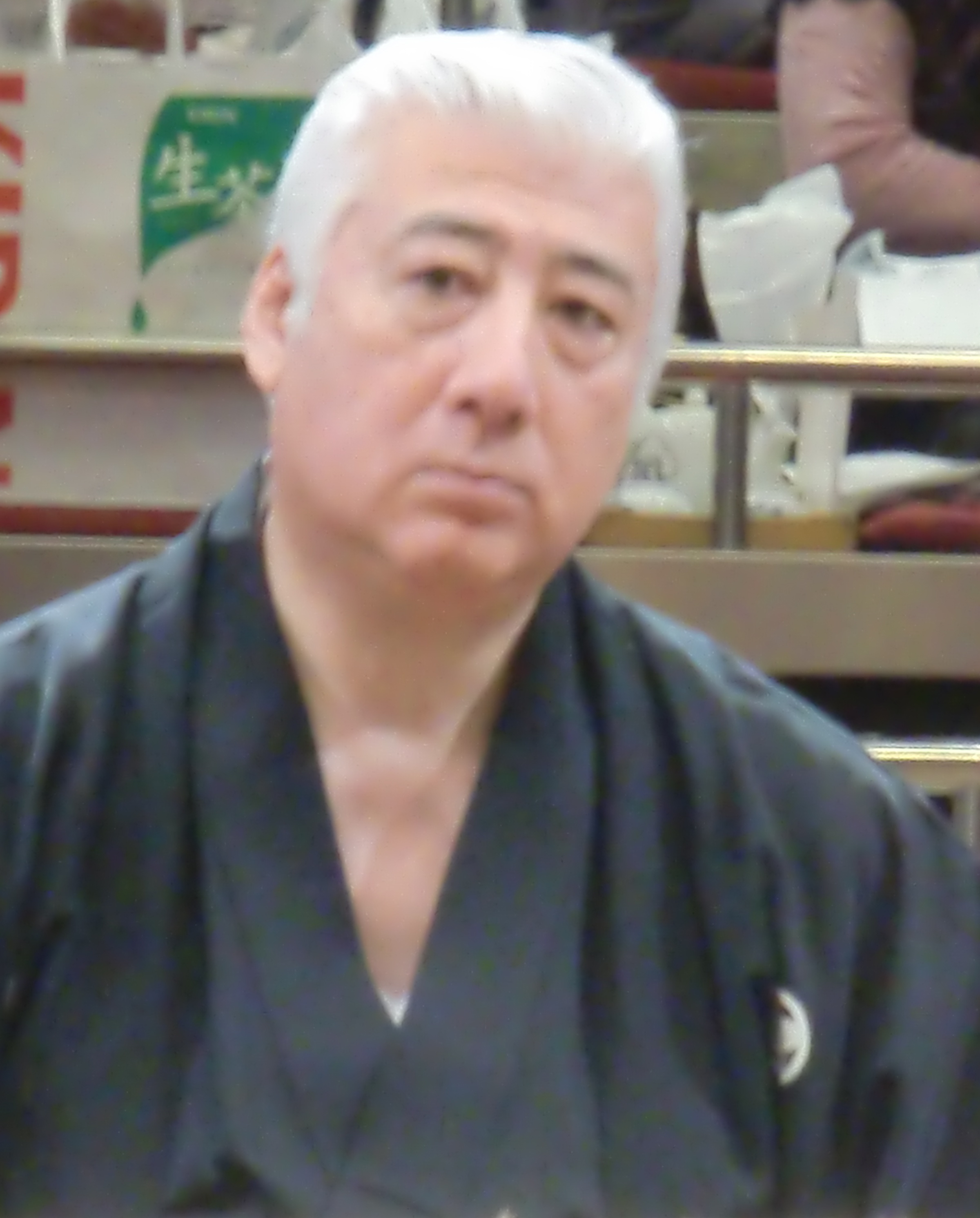 taken at 2011 Jan tournament